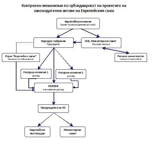 Subsidiarity Scheme